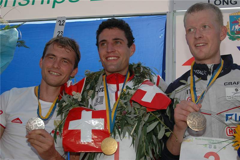 World Orienteering Championships 2007 in Kiev, Ukraine. On photo winners long distance Russian Andrey Khramov, Swiss Matthias Merz and Norwegian Anders Nordberg.